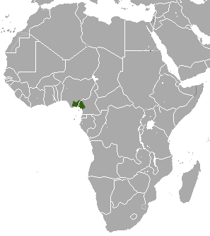 Bioko Allen's Bushbaby (Galago alleni) range